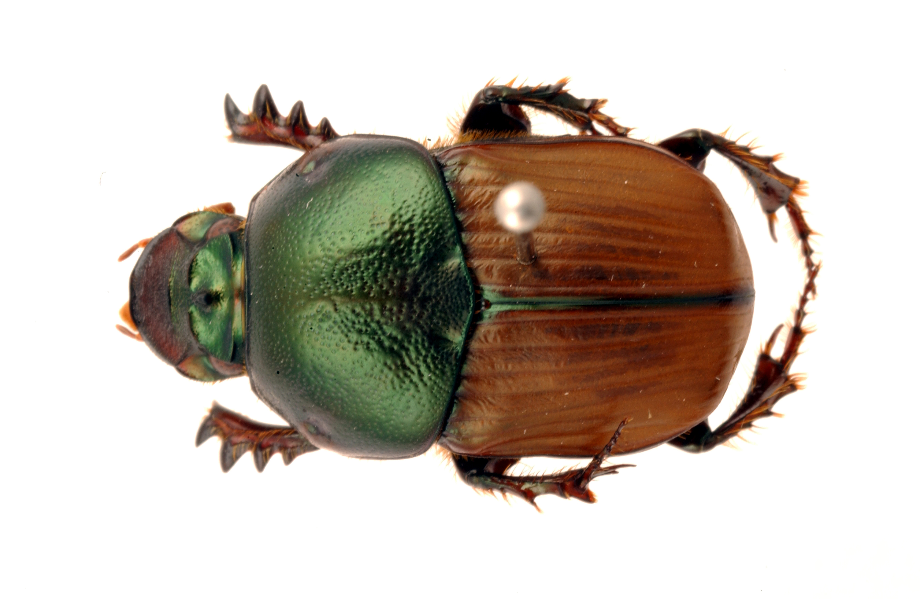 Introduced dung beetle in Australia. Native across much of Africa, south of the Sahara, and southern Europe. Established in most Australian states and territories, except Tasmania.